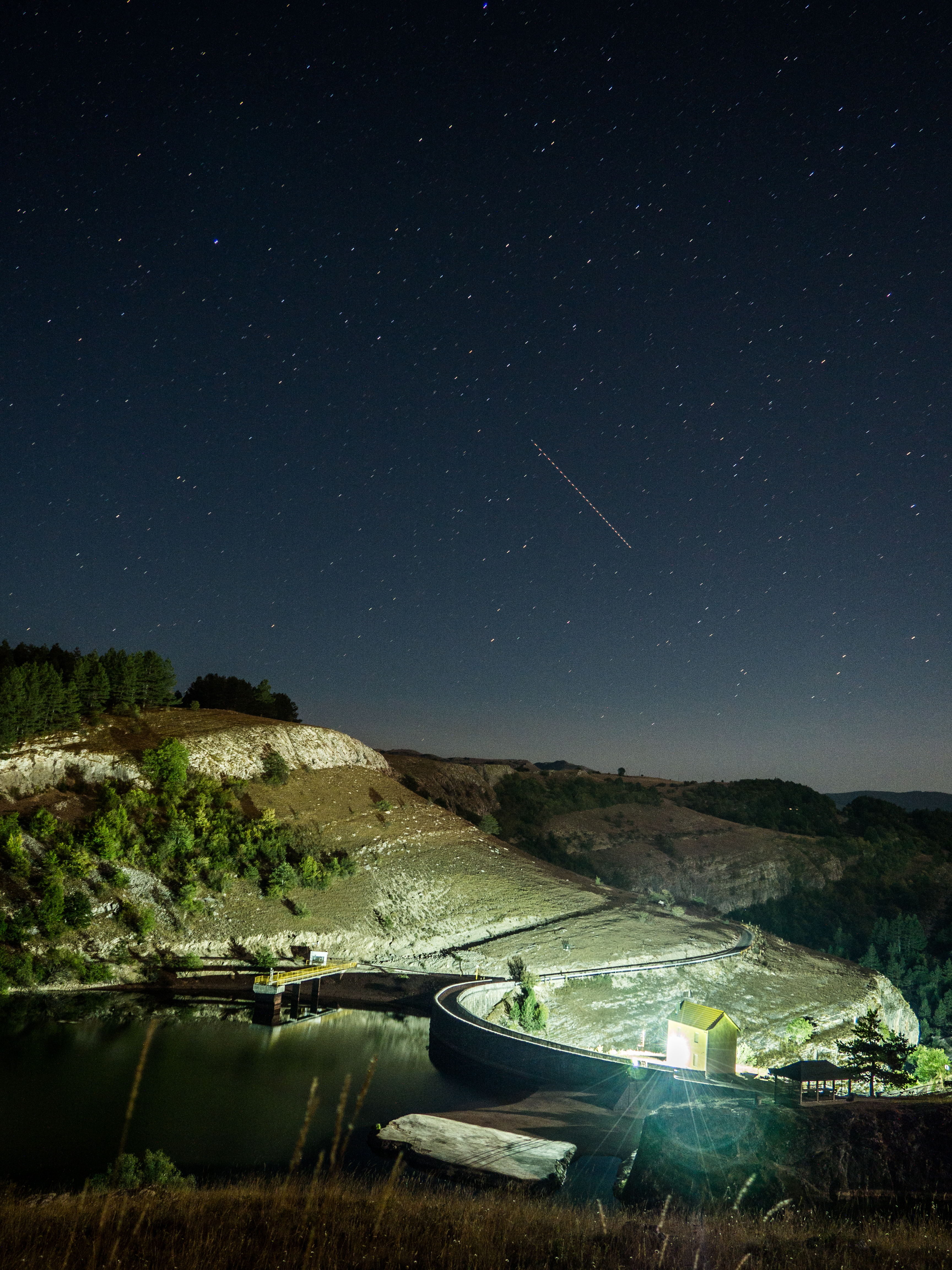 Брана Клиње, Гацко ID добра: NKD309 The dam on lake Klinje is considered one of the oldest on Balkan. It was built according to the project of French engineer Kroutza, from 1892 to 1896, and for the construction of it was spent 848,474 crowns. Folk tales say that volcanic ash from Naples was brought to build the dam. The primary purpose was for the accumulation of irrigation water, and in 1974 another dam was installed, and the reservoir is now used for the needs of RiTE Gacko.